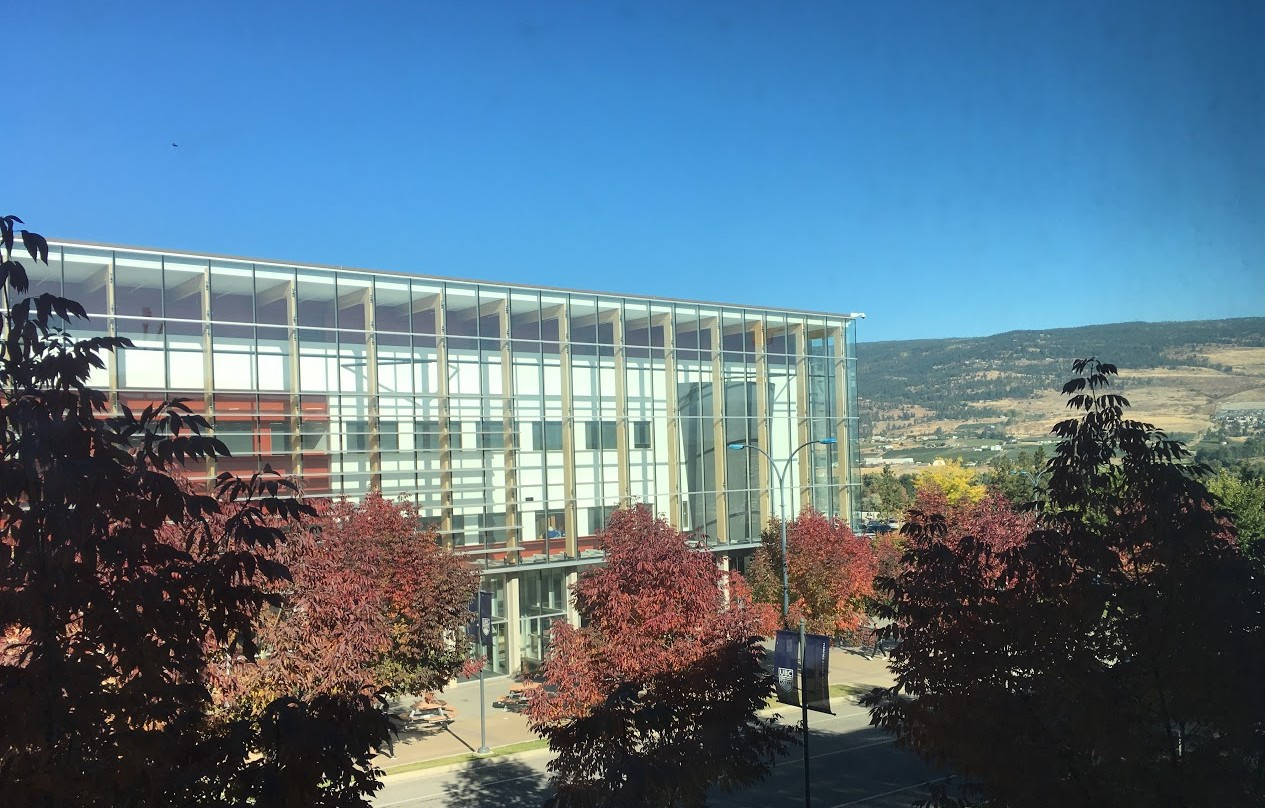 University Centre (UBC Okanagan)